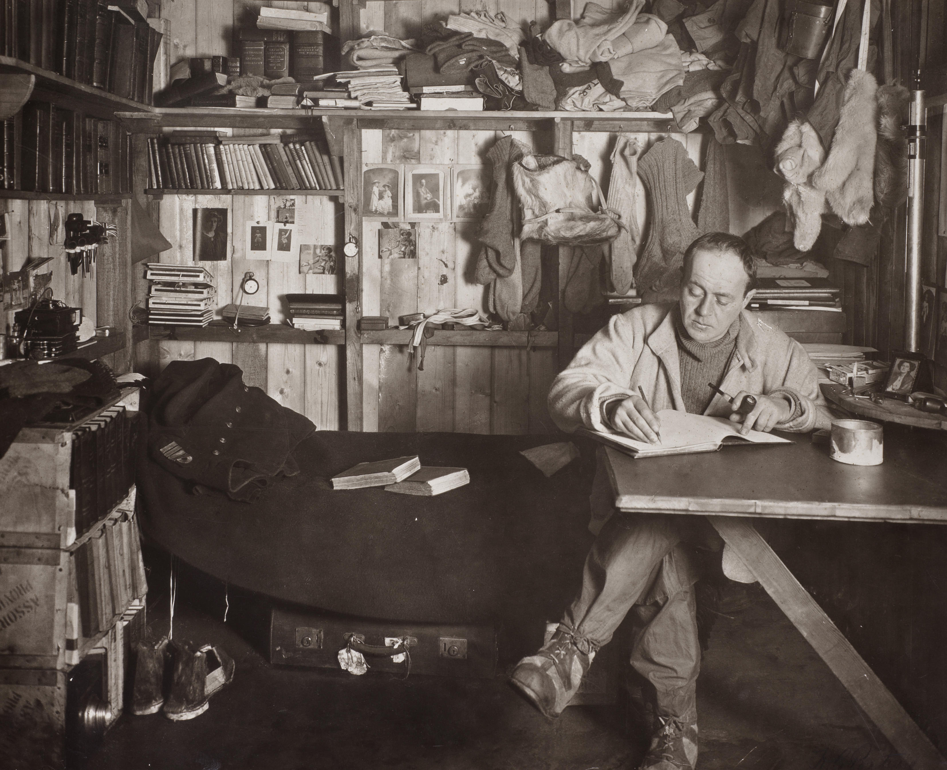 Captain Robert Falcon Scott writing in his diary, Cape Evans hut, 7th October 1911. Brown toned carbon print.